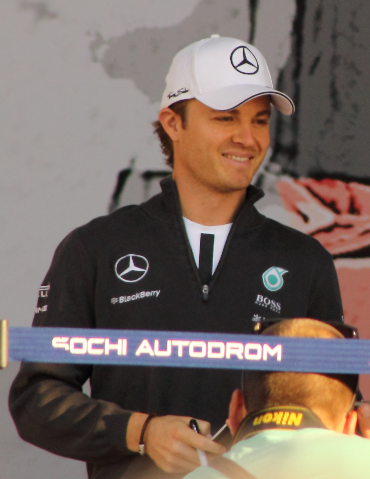 Nico Rosberg at the 2015 F1 Russian Grand Prix in Sochi Olympic Park